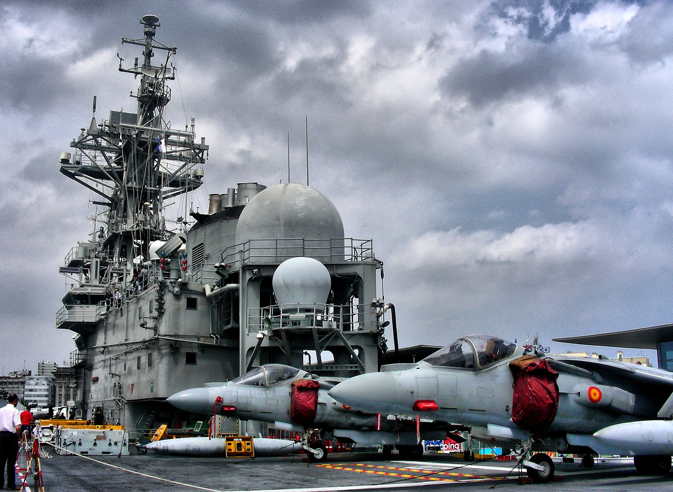 Spanish Navy aircarft carrier Flying deck Principe de Asturias (R-11) in La Coruña, Spain.